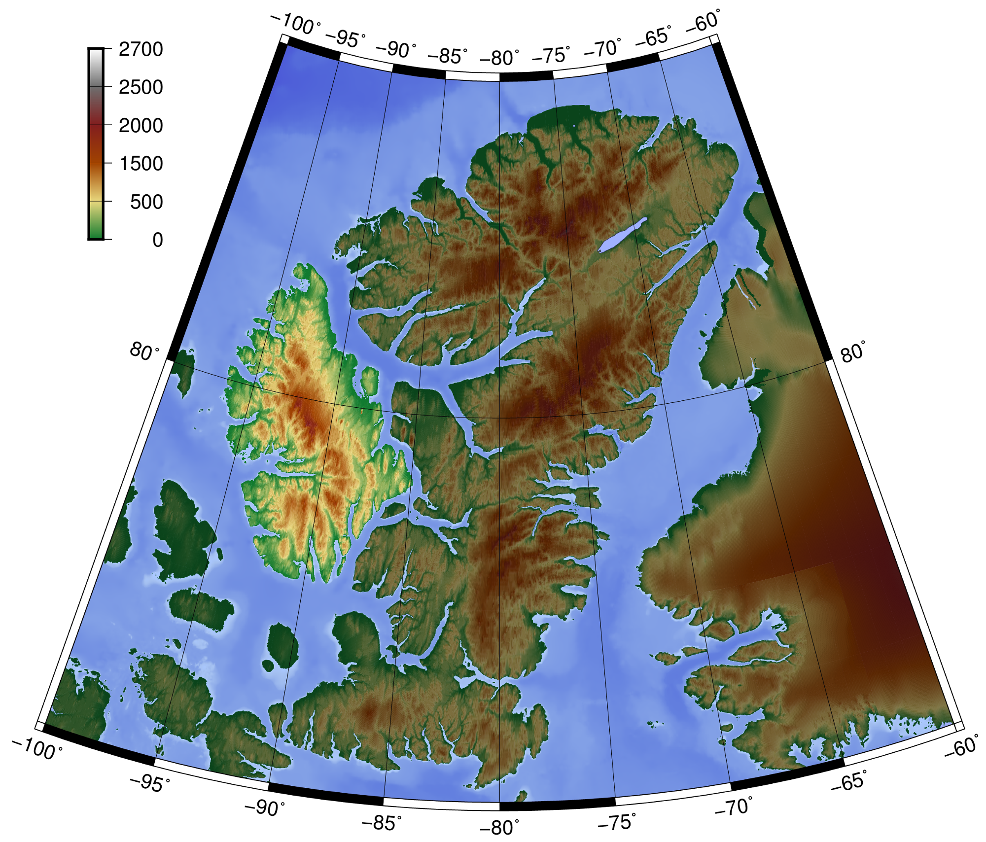 Topography of Axel Heiberg Island, created with GMT 5.2.1